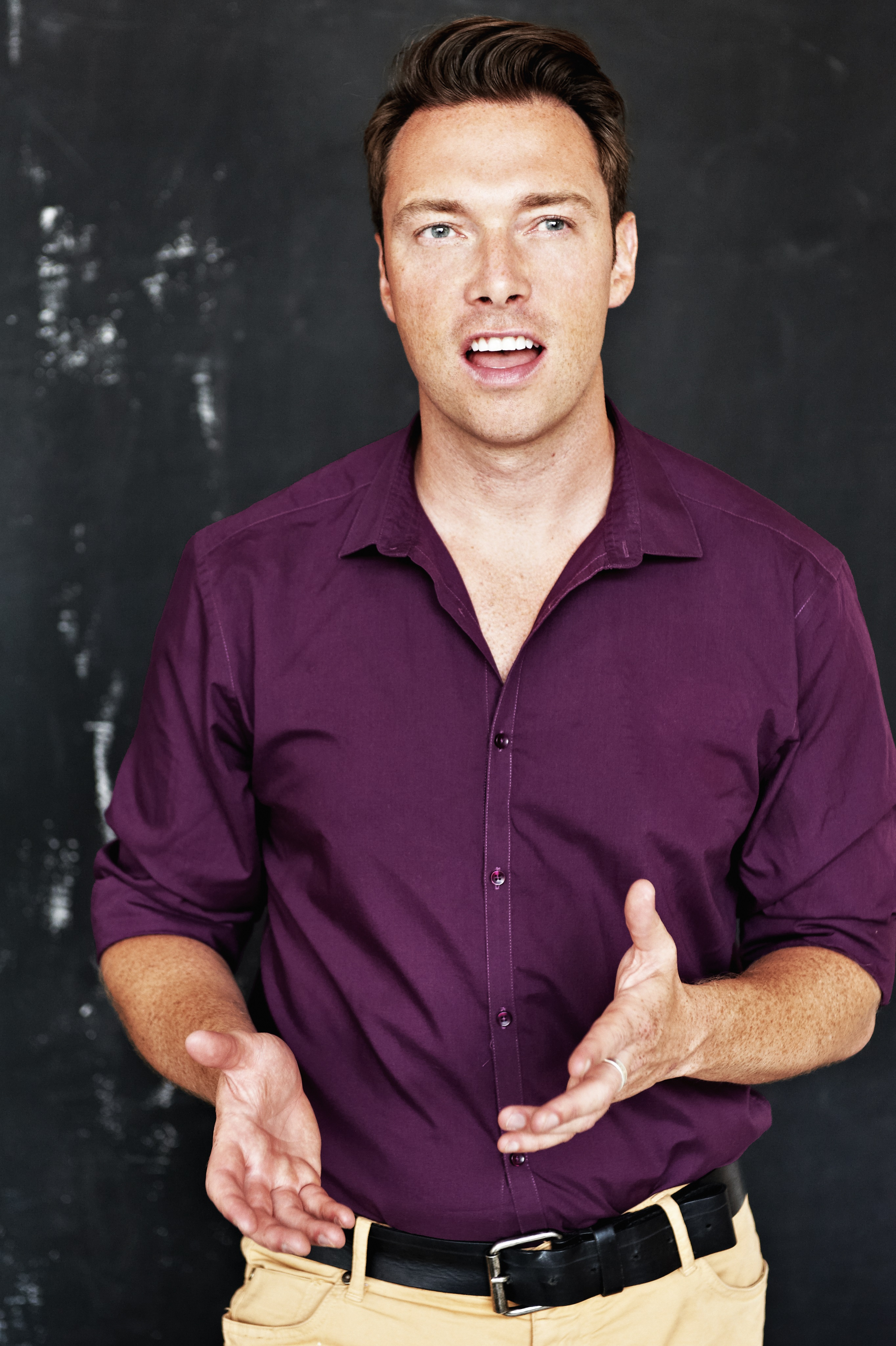 martyn Andrews tv presenter private photo